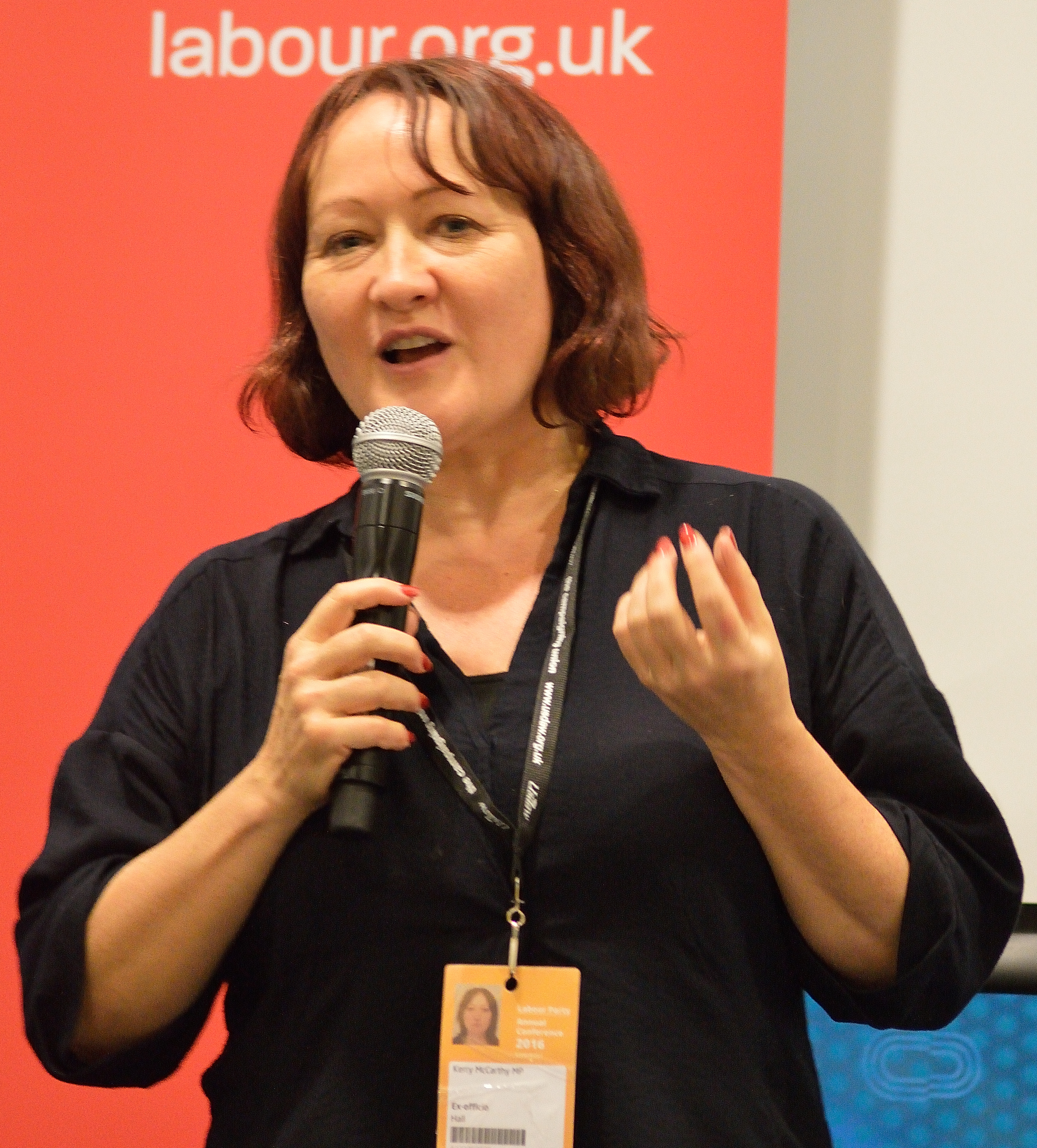 Kerry McCarthy MP at the 2016 Labour Party Conference in Liverpool, speaking at the Sustainability Hub Reception organised by the Socialist Environment and Resources Association (SERA).